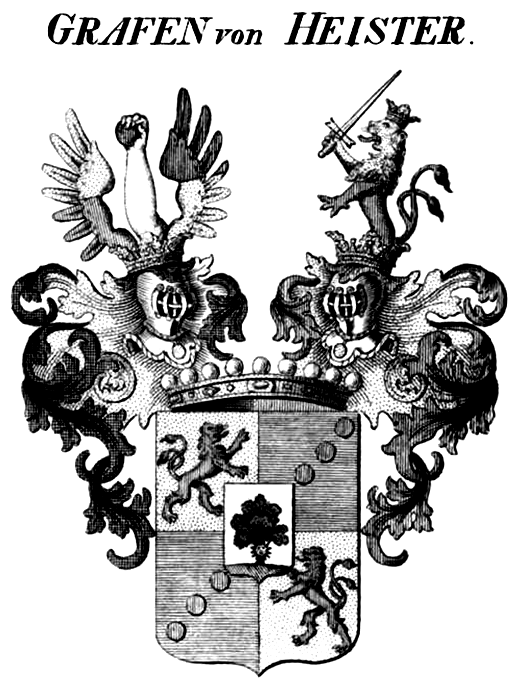 Coat of Arms of Heister (Counts)